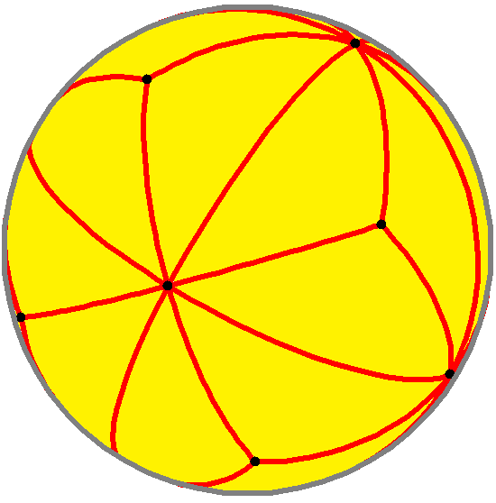 Spherical polyhedron triakis octahedron